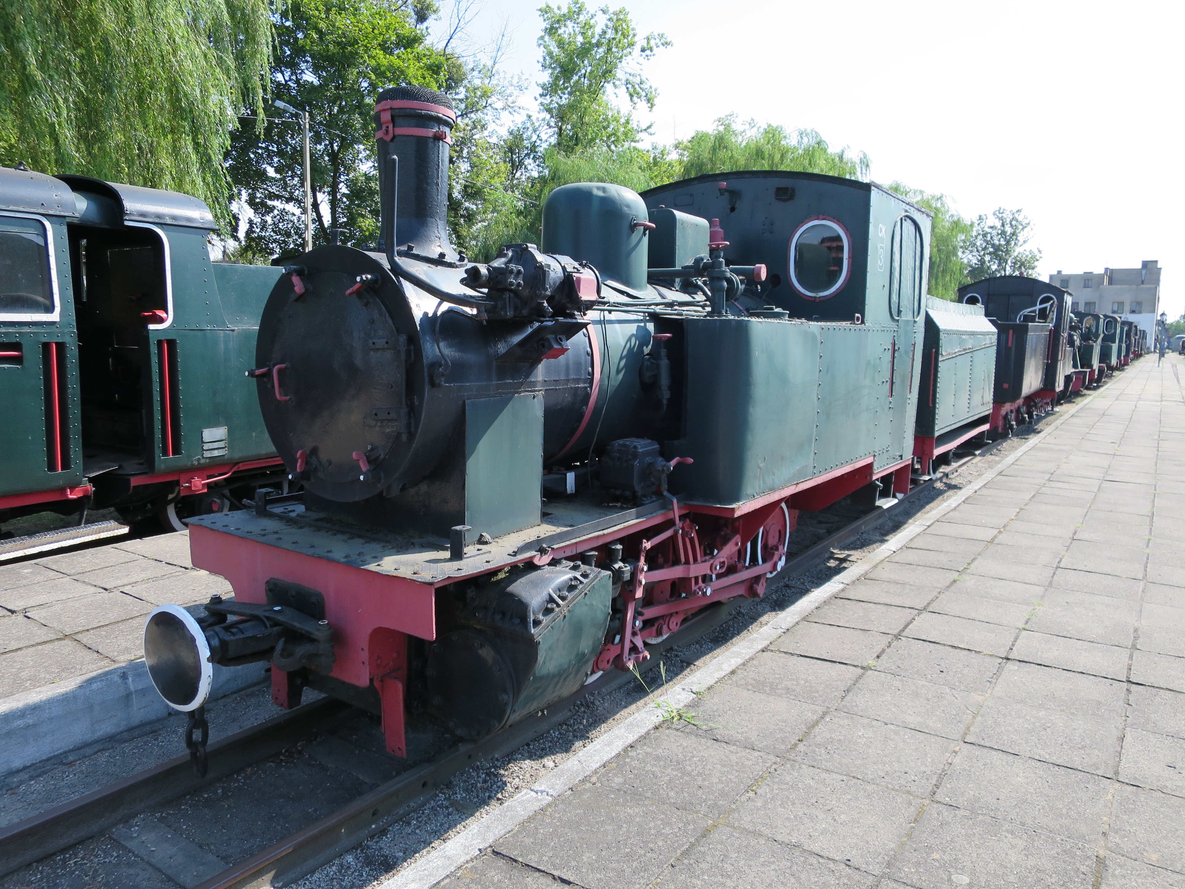 Cukrownia Kruszwica 3 locomotive (Henschel 20315/1924) Muzeum Kolei Wąskotorowej w Sochaczewie This photo was taken during Railway Wikiexpedition 2015 set up by Wikimedia Polska Association in cooperation with Fundacja Grupy PKP. You can see all photographs in category Wikiekspedycja kolejowa 2015.